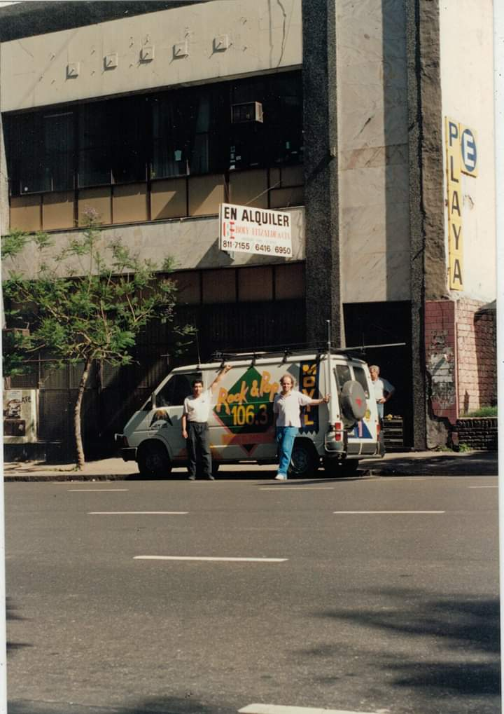 Antiguo edificio Radio Buenos Aires y Rock & Pop